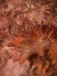 Anthodites within Skyline Caverns, Virginia, United States of America.